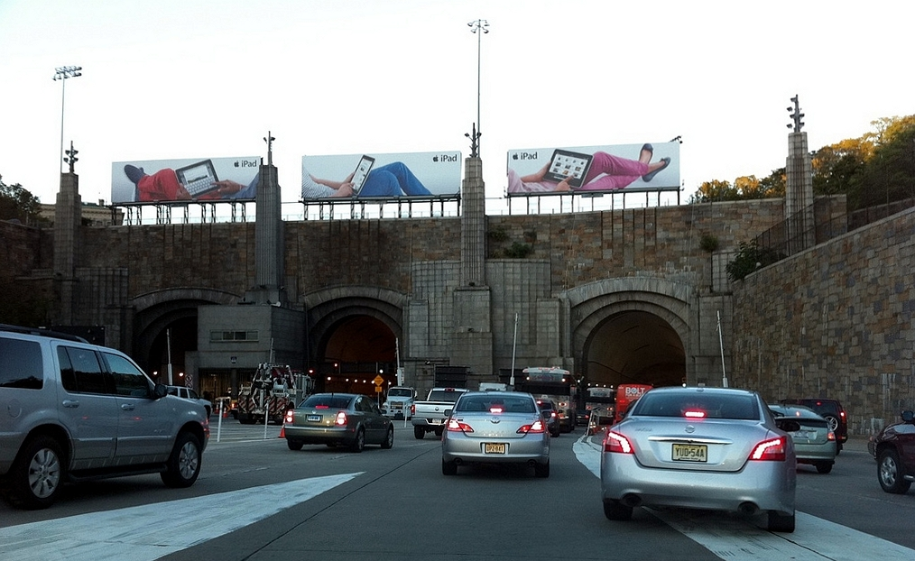 Entrance to Lincoln Tunnel on New Jersey side.